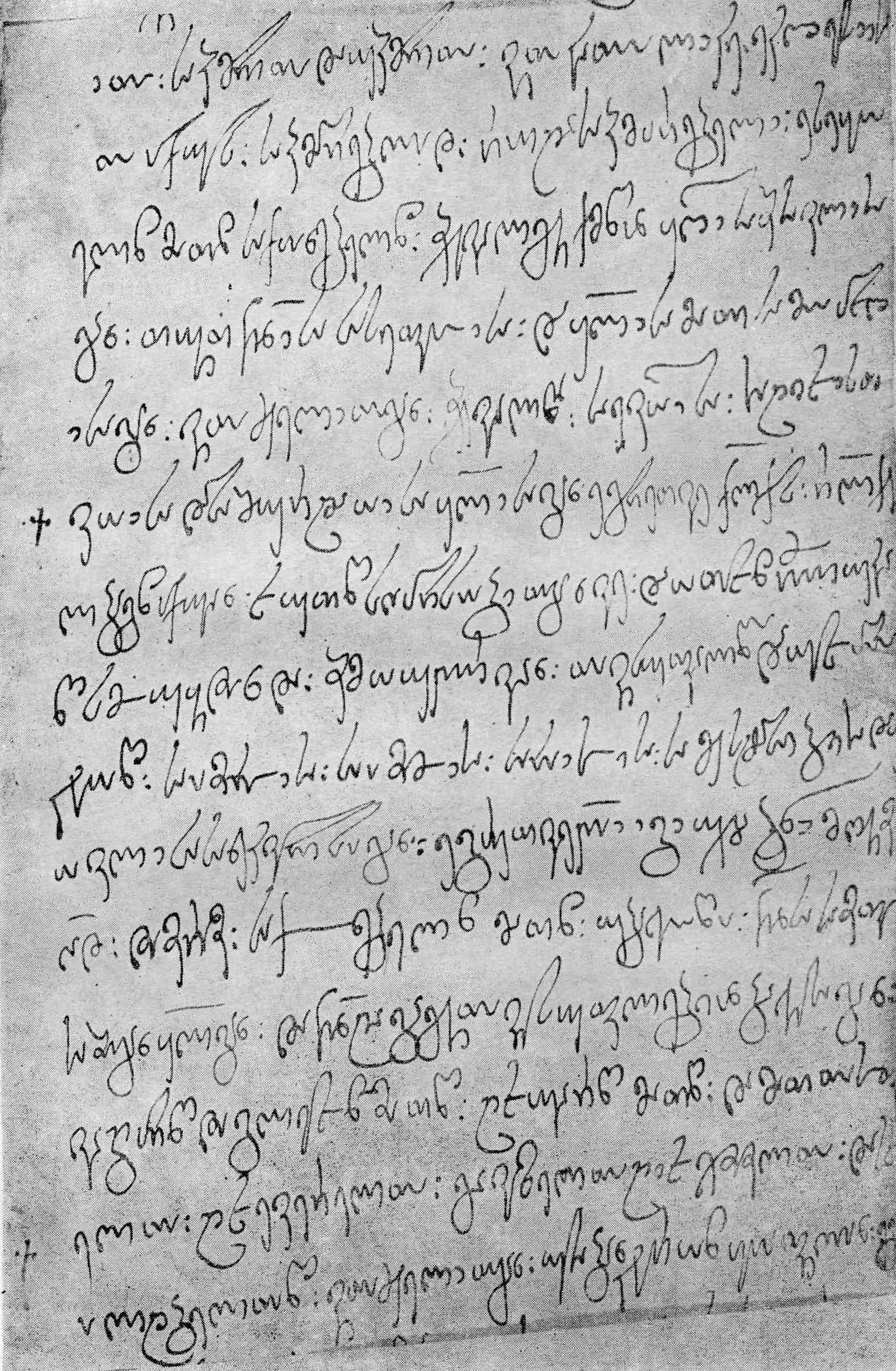 Royal charter of King George III of Georgia